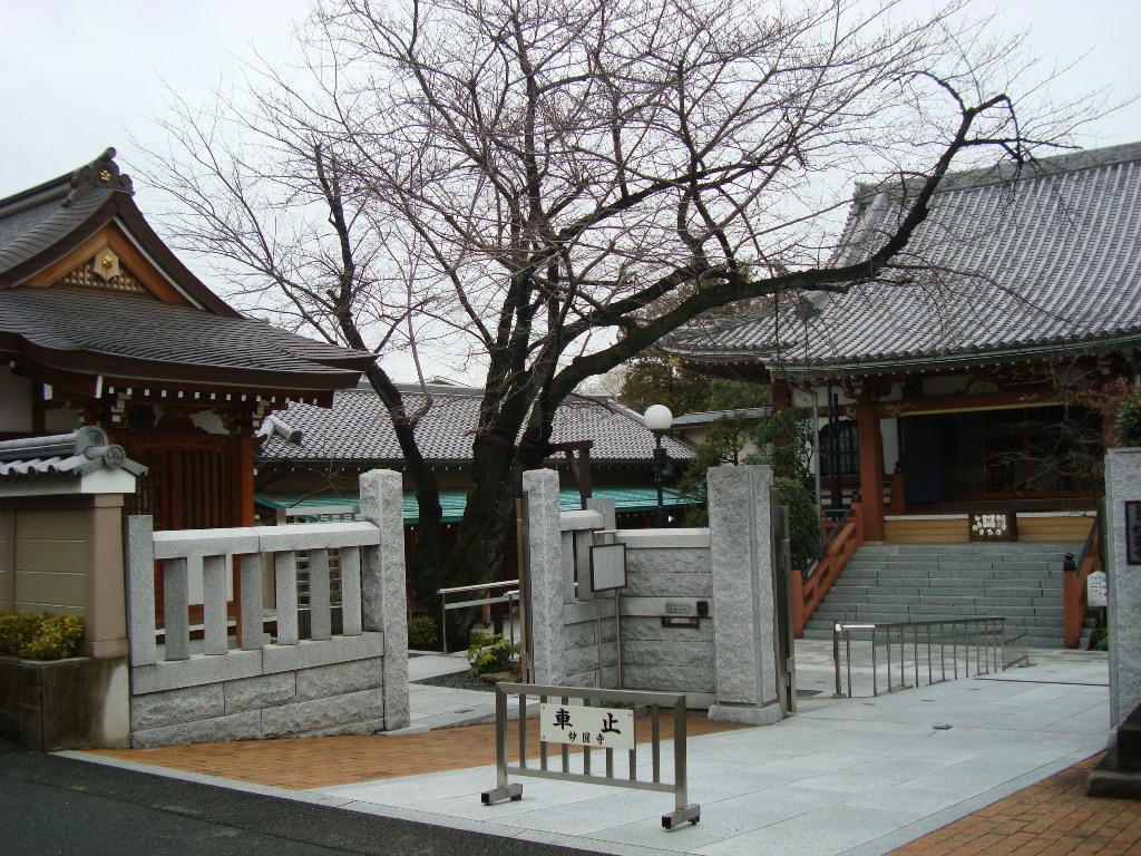 Myoenji temple at Harajuku, Tokyo (Jingu-mae 3, Shibuya city)